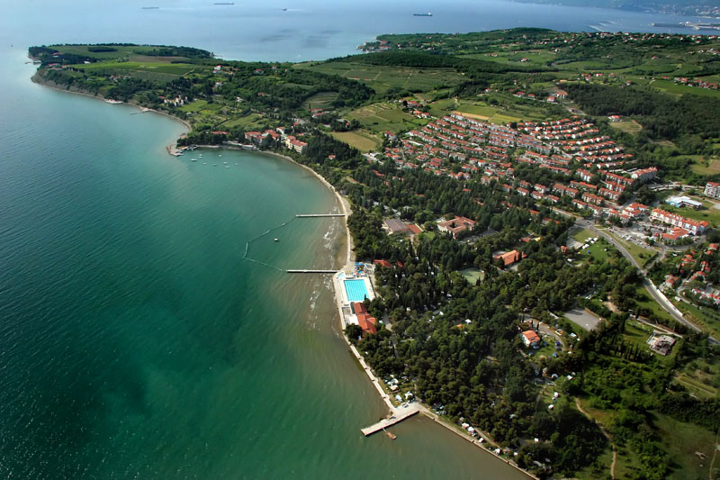 The picture was made by me. I allow to use it for anything